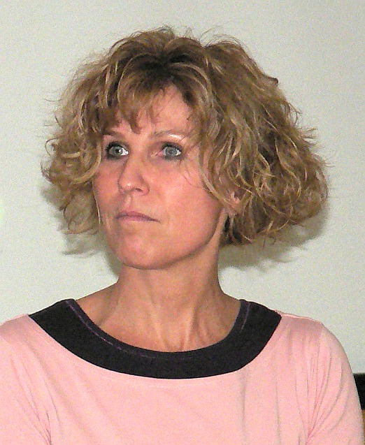 Sós Ágnes 2011